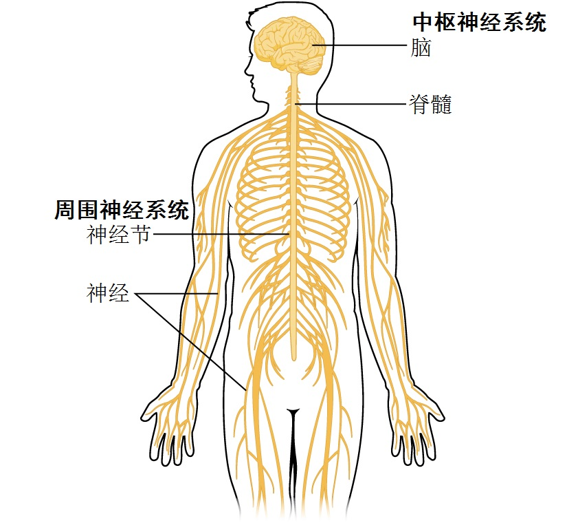 版本8.25，取自教科书 OpenStax Anatomy and Physiology 2016年5月18日出版